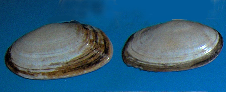 Gari depressa, the large sunset shell, from the family Psammobiidae